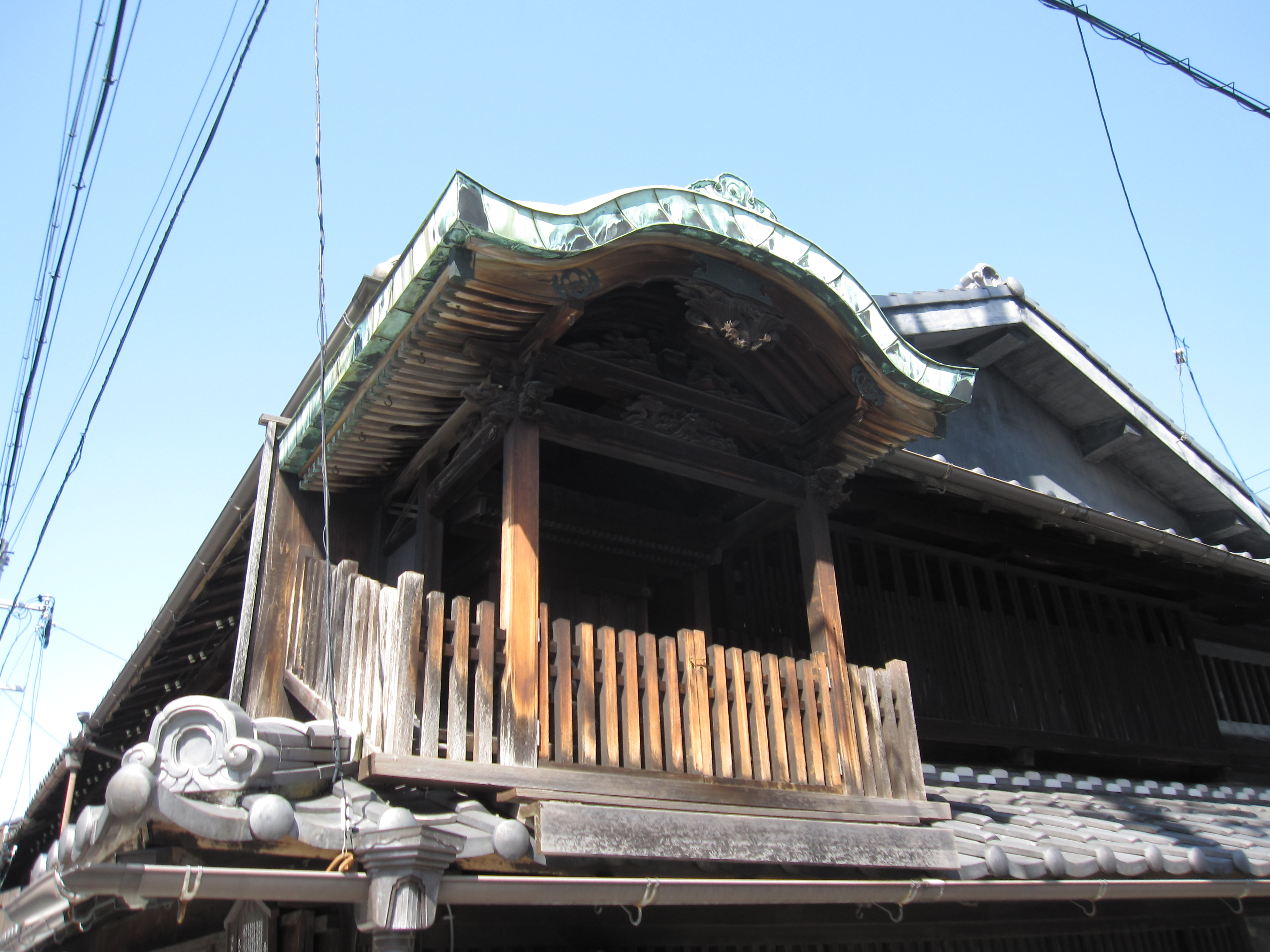 Shikemichi (四間道) is a small historical street in Nishi-ku, Nagoya in central Japan.